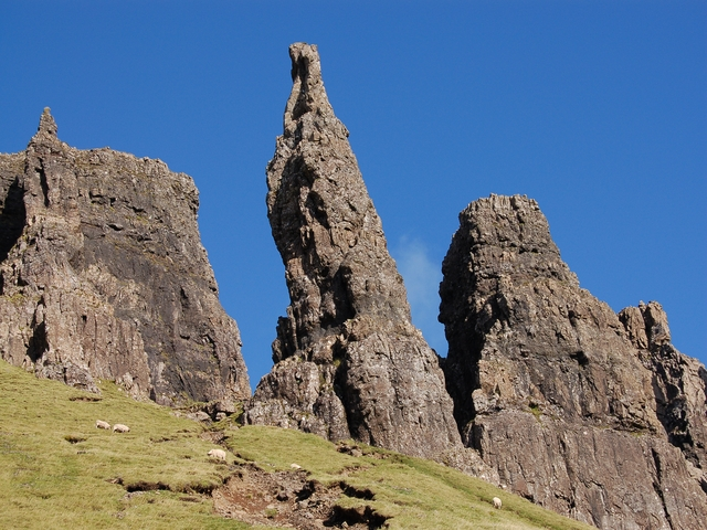 Quiraing - The Needle. Standing guard at the front of the Quiraing, the Needle is 120 ft high shard of basalt. It has been dislodged from the cliff face as the whole of the eastern side of Meall na Suiramach slips slowly downwards.